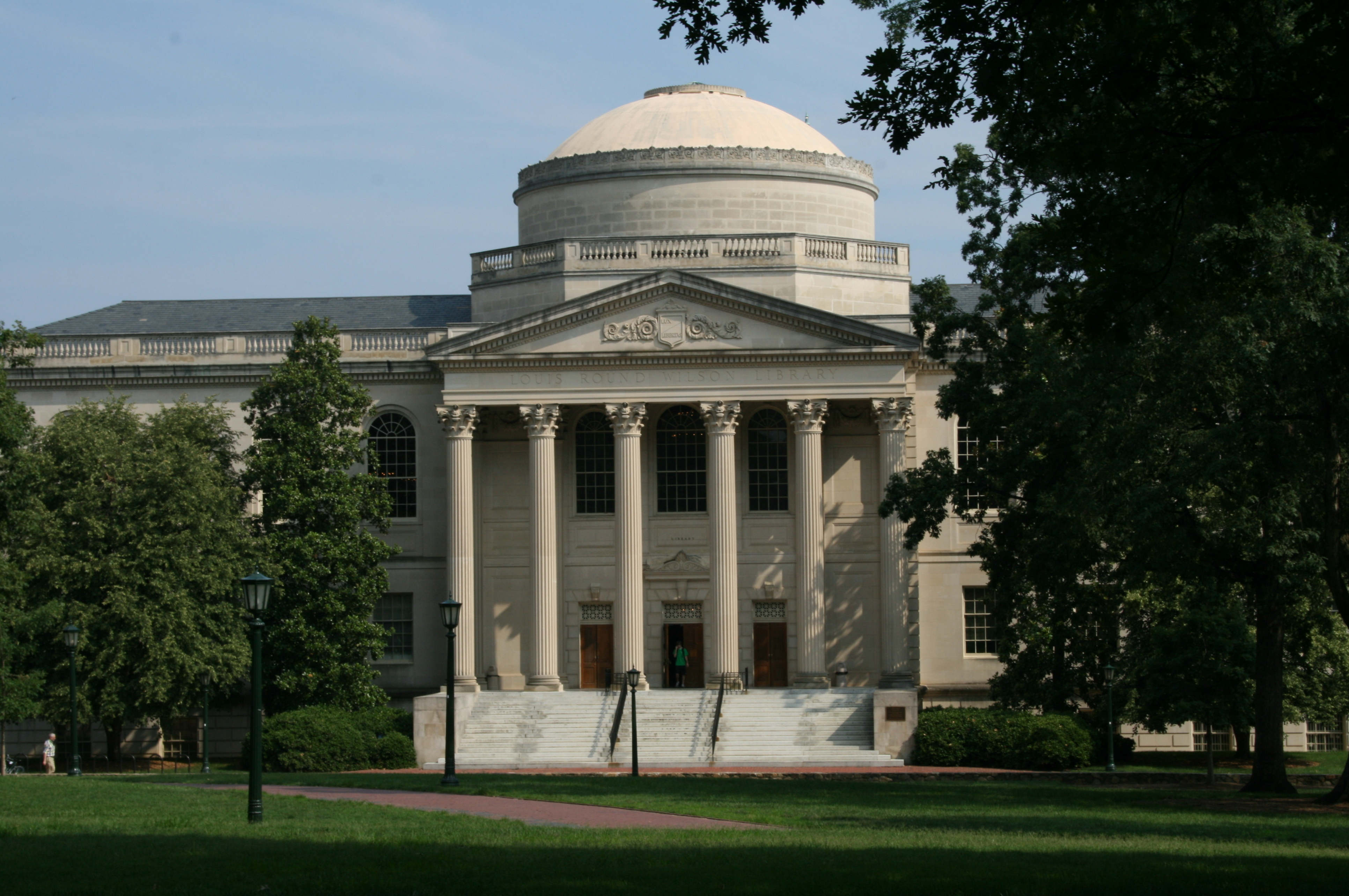 Louis Round Wilson Library at the University of North Carolina at Chapel Hill.